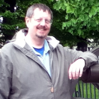 This is a picture of author Joe Clifford Faust taken at Trinity Cathedral in St. Petersburg, Russia.